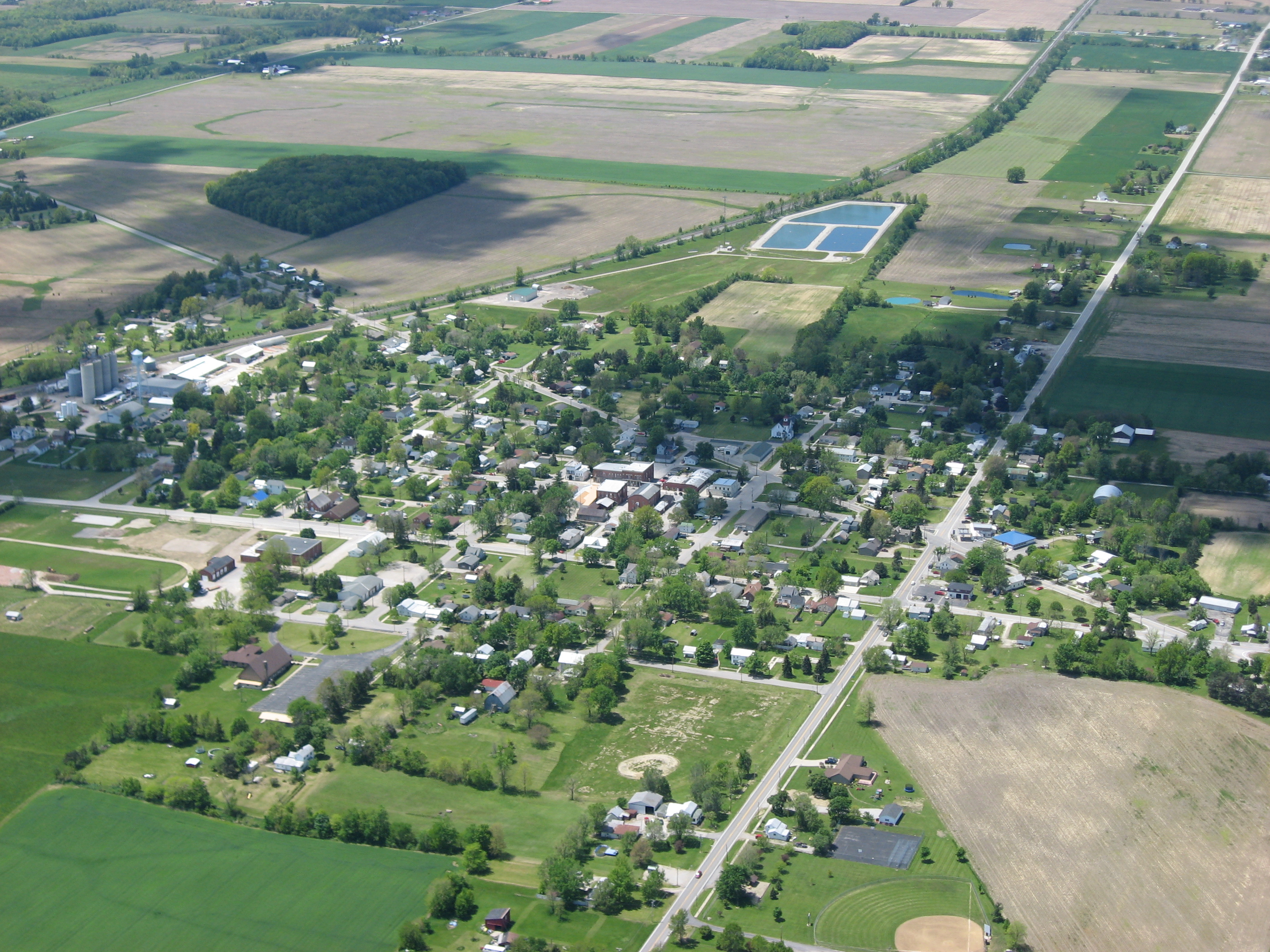 Aerial view of Republic, a village in Scipio Township, Seneca County, Ohio, United States. Picture taken from a Diamond Eclipse light airplane at an altitude of 2,450 feet MSL and a bearing of approximately 240º.